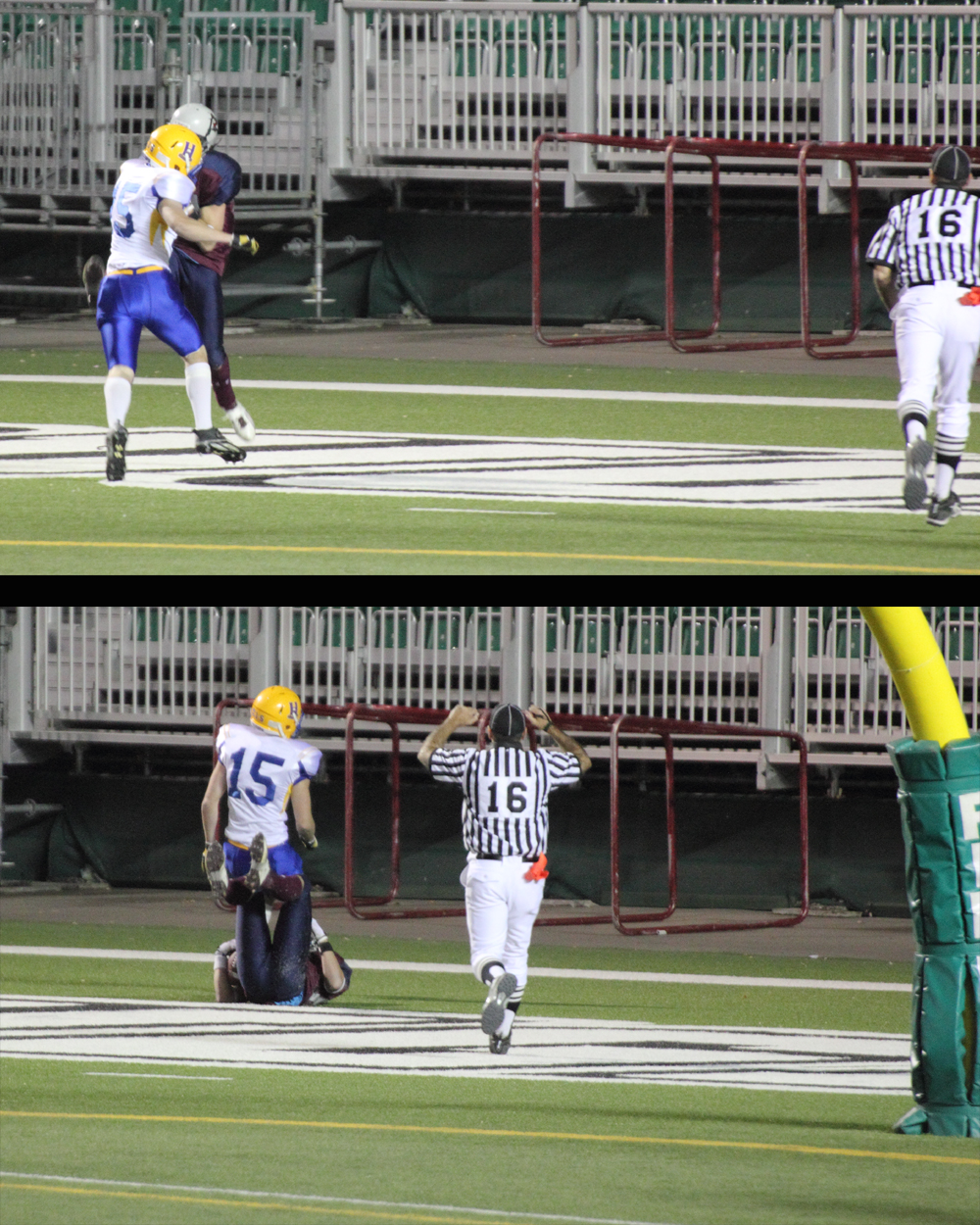 Sunday September 22 7:00 Junior Football game in the Prairie Football Conference. Canadian Junior Football League teams included Regina:Regina and Saskatoon. Saskatoon Hilltops were the visitors at Mosaic Stadium home to the Regina Thunder and Saskatchewan Roughriders. The game concluded at Hilltops 42-17 Thunder This play is two consecutive images showing the Thunder Touchdown bringing the score to 16 Thunder to 41 Hilltops. Convert was taken at 2:49 in the 4th quarter and was good bringing the score to 17 41